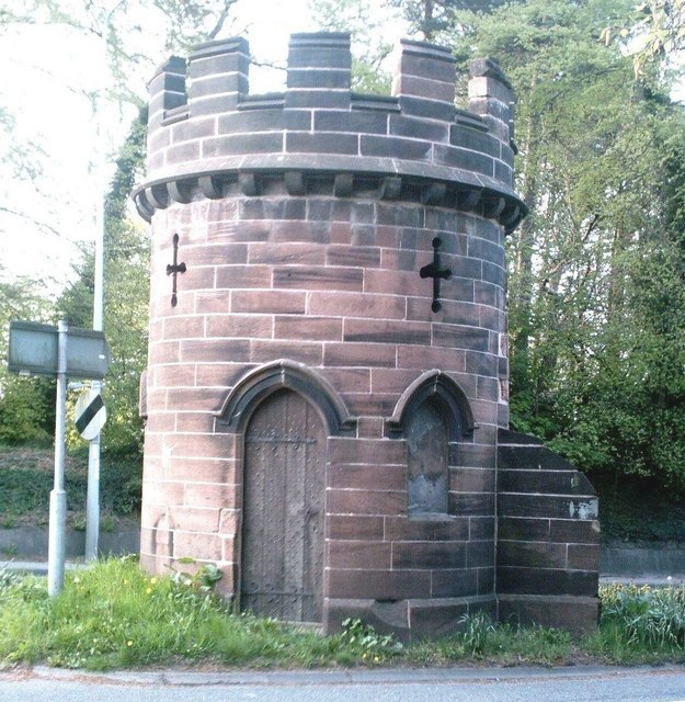 Round Tower Lodge, Sandiway, Cheshire. The tower was part of Vale Royal estate, but has been stranded in the central reservation of the A556 road when this was built in the 1930s.